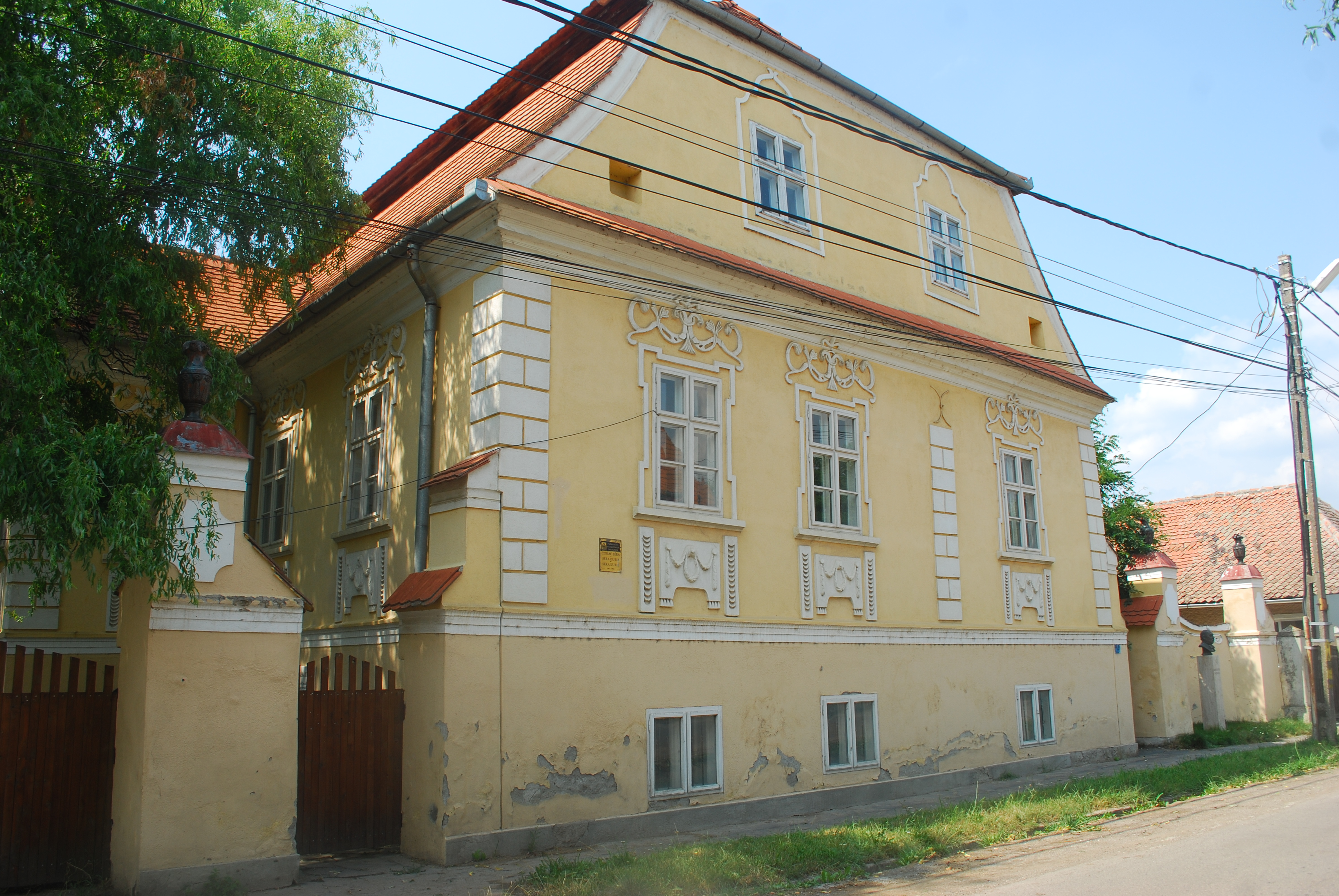 Séra mansion in Ilieni, Covasna County, Romania